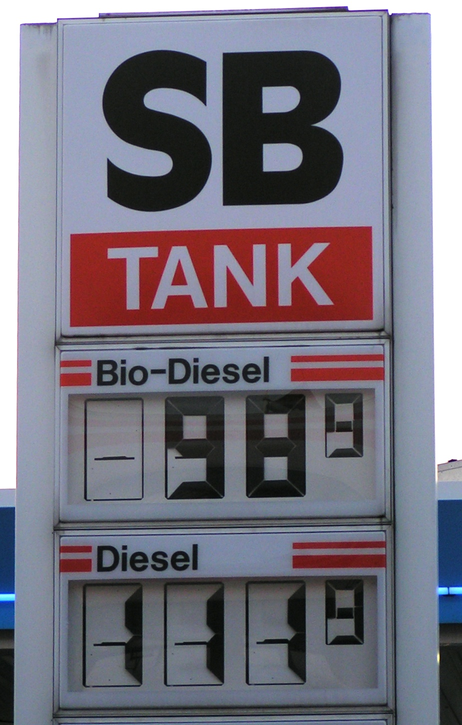 Diesel prices at a local filling station in Kafertal, Mannheim, on 26-03-2007. Photo taken by Bob Tubbs.